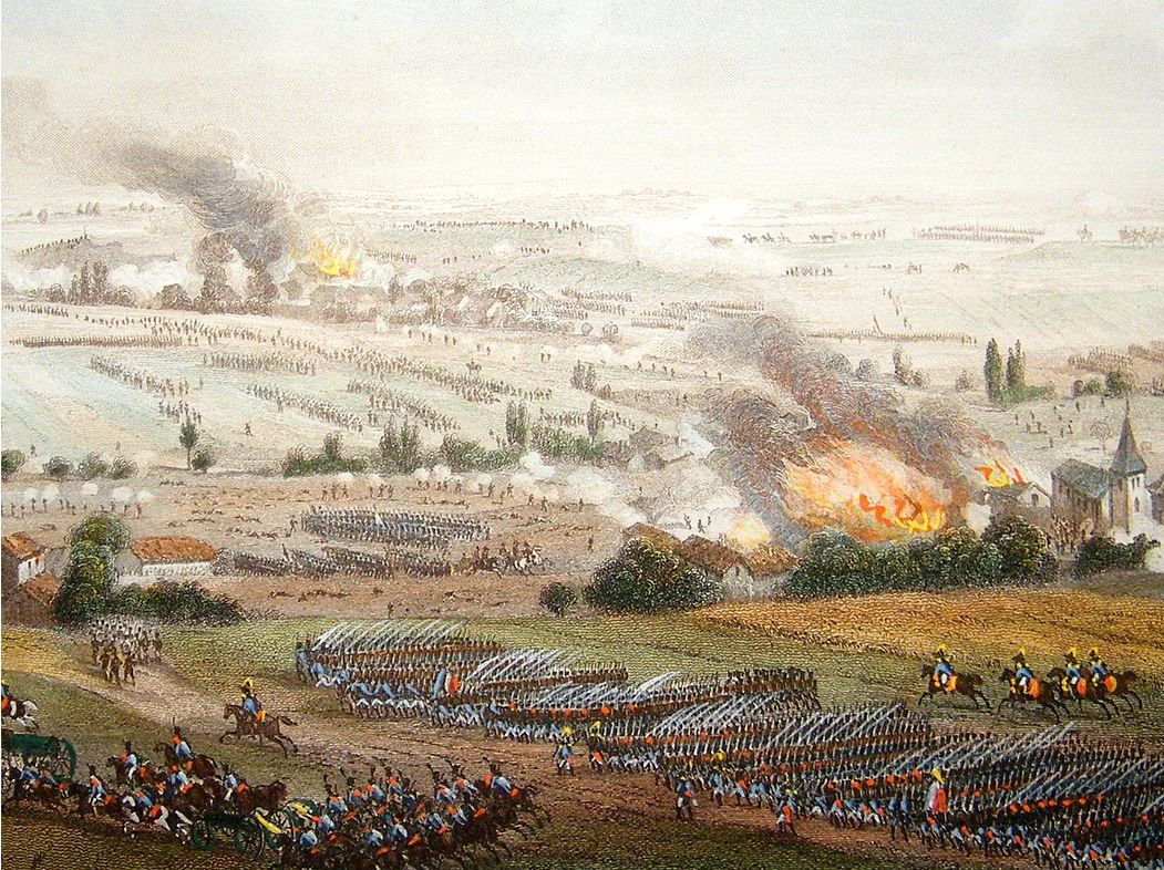 Battle of Ligny by Theodore Yung